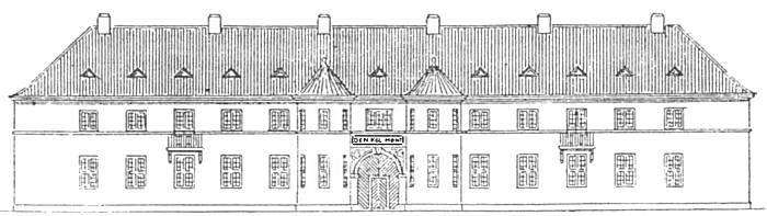 Martin Borch's drawing of Mønten, Amager Boulevard 115, 1923